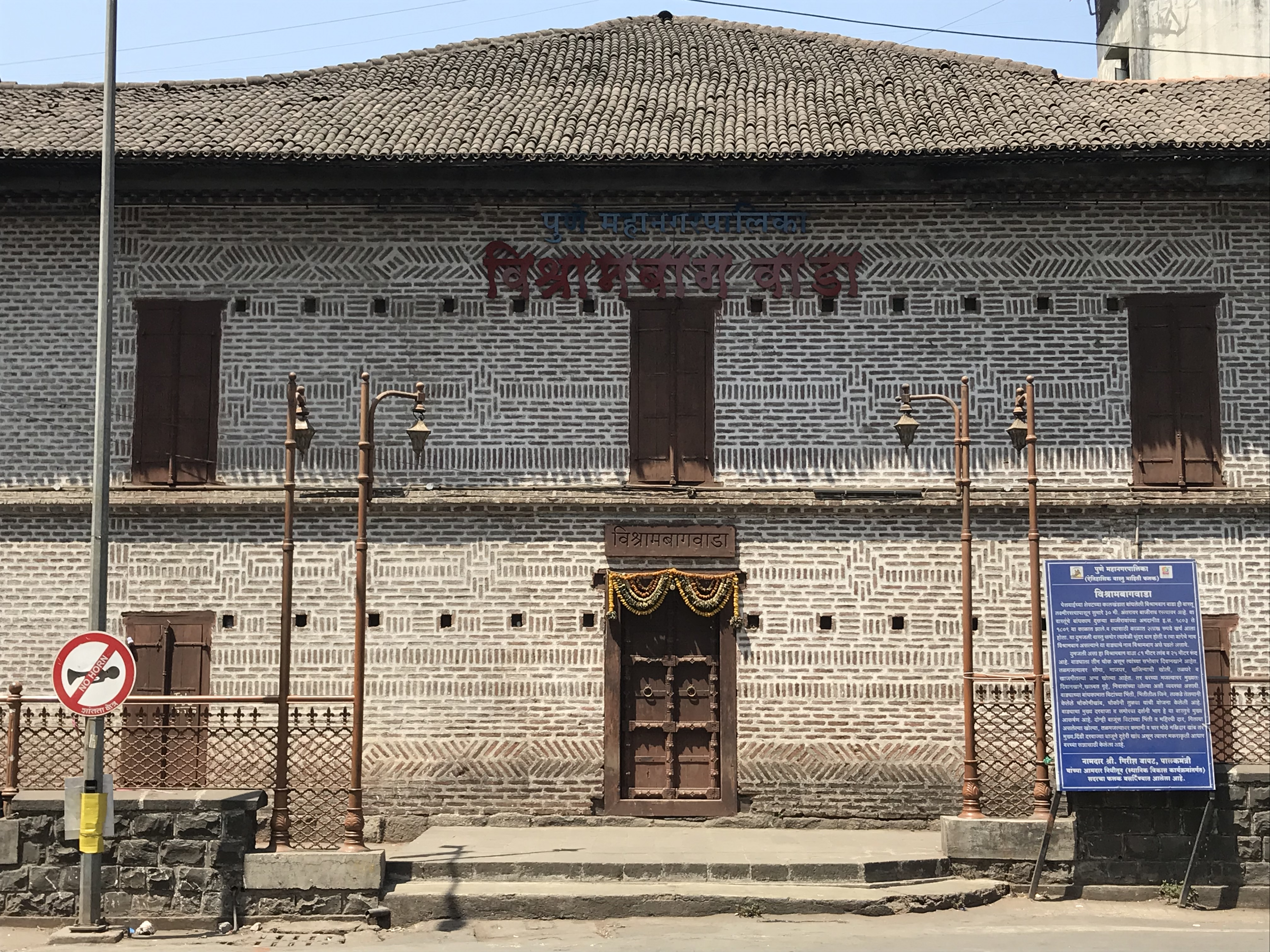 Vishram Baug Wada Pune